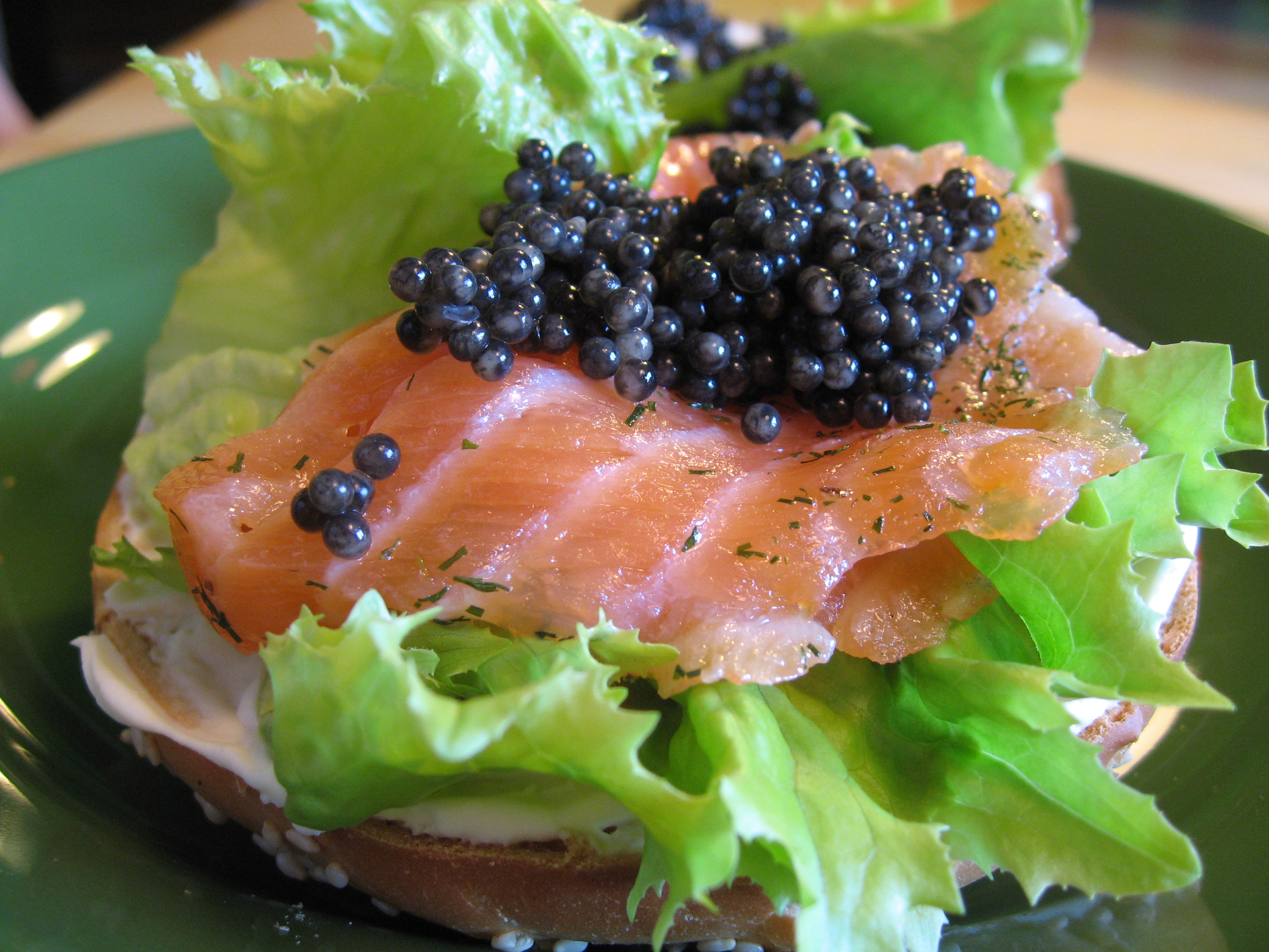 Caviar a bit posh breakfast